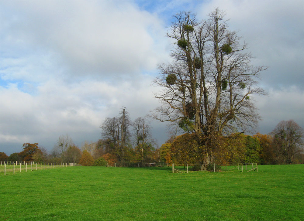 North Stoneham Park Author: Willis Fleming Historical Trust, 2011